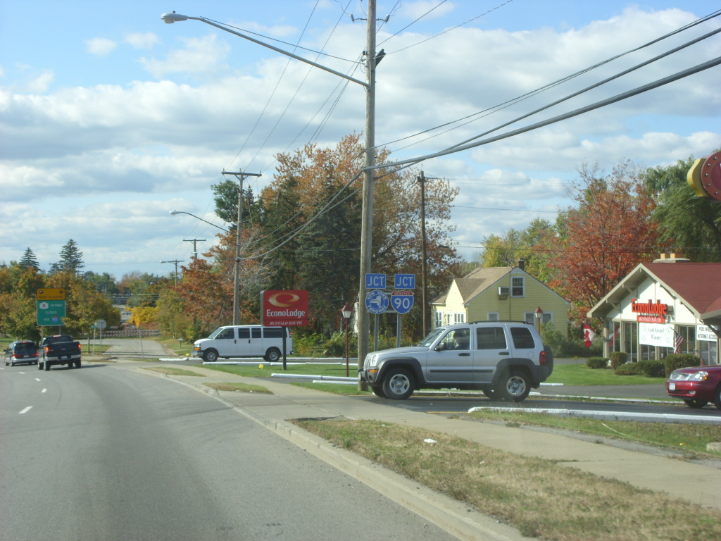 New York State Route 179 westbound (Mile Strip Road) approaching the interchange with the New York State Thruway in Hamburg.